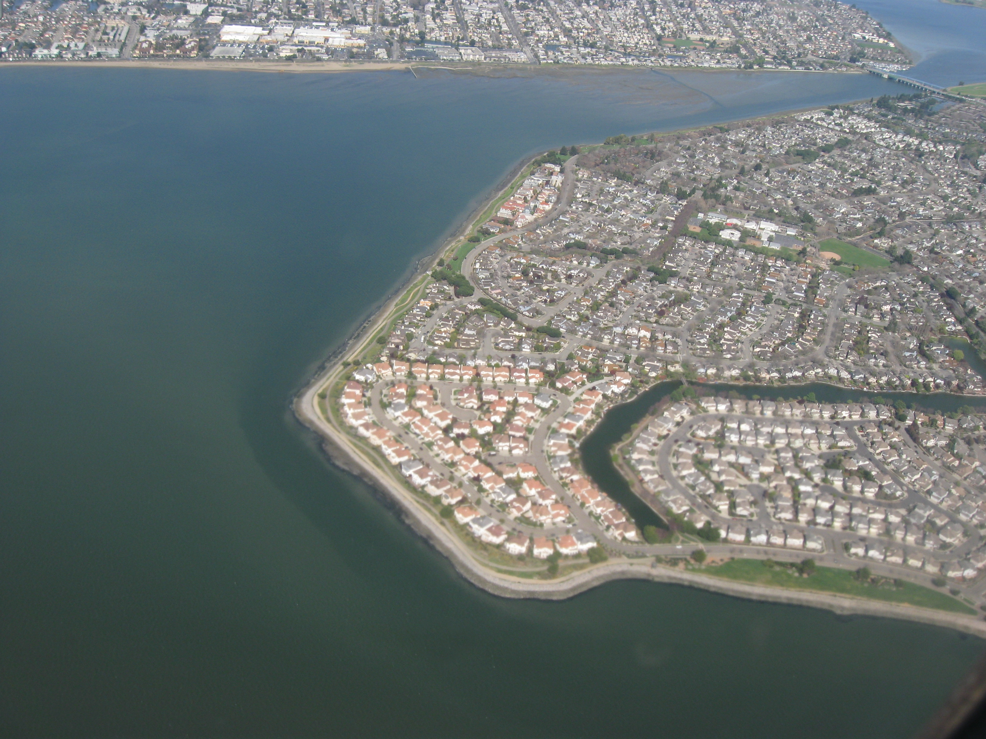 Aerial view of Bay Farm Island and above it the San Leandro Channel. At top is Alameda Island.